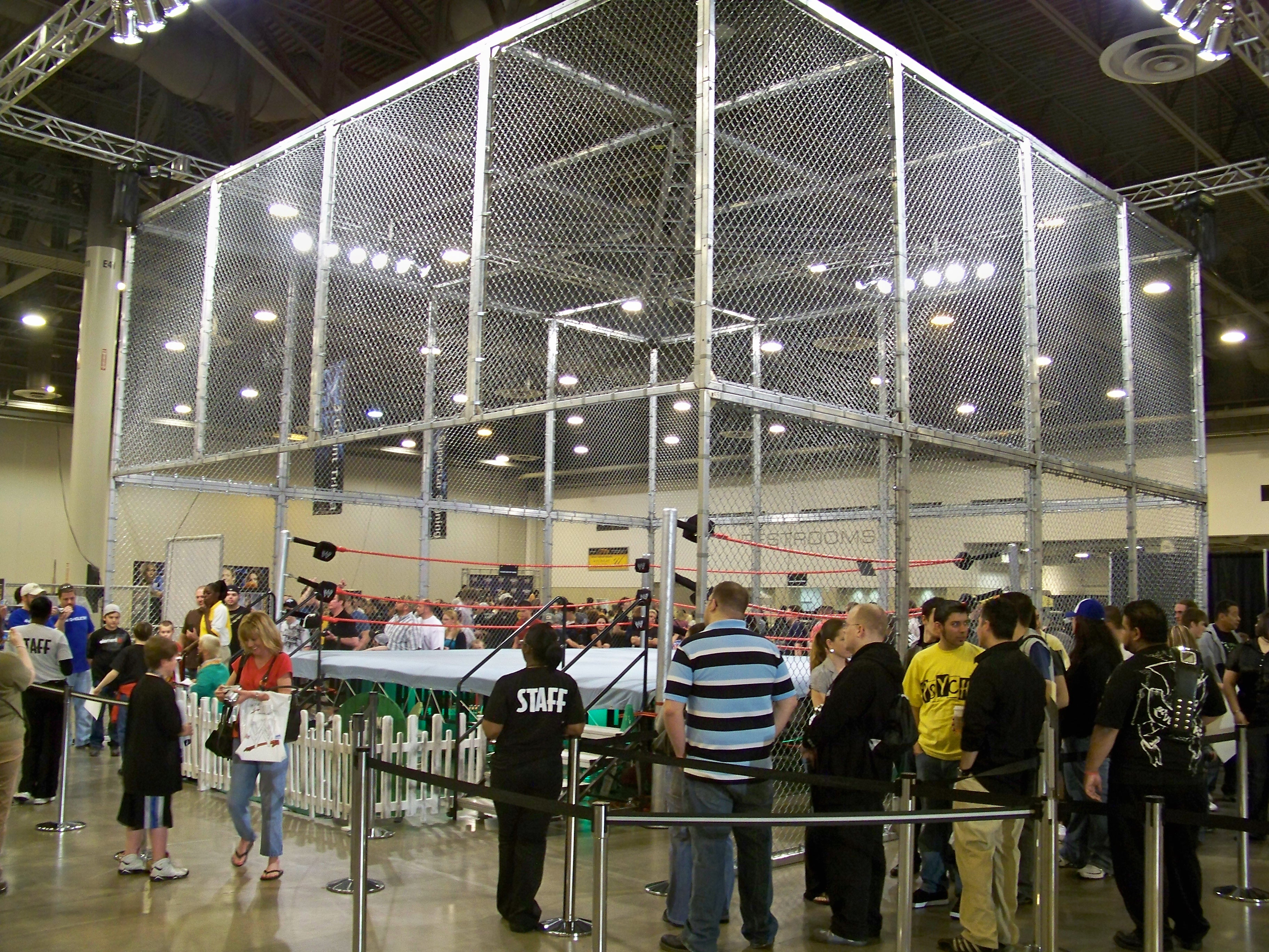 A recreation of the structure used in WWE's Hell in a Cell match.